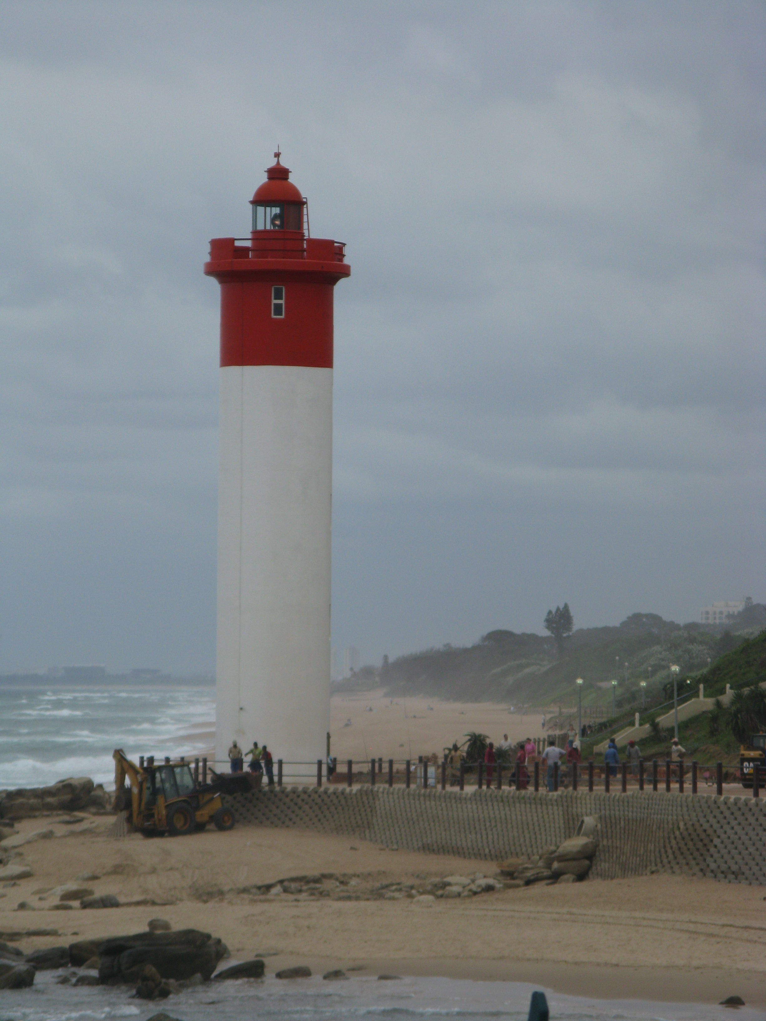 The lighthouse at Umhlanga Rocks, Durban, South Africa. Unaltered original.